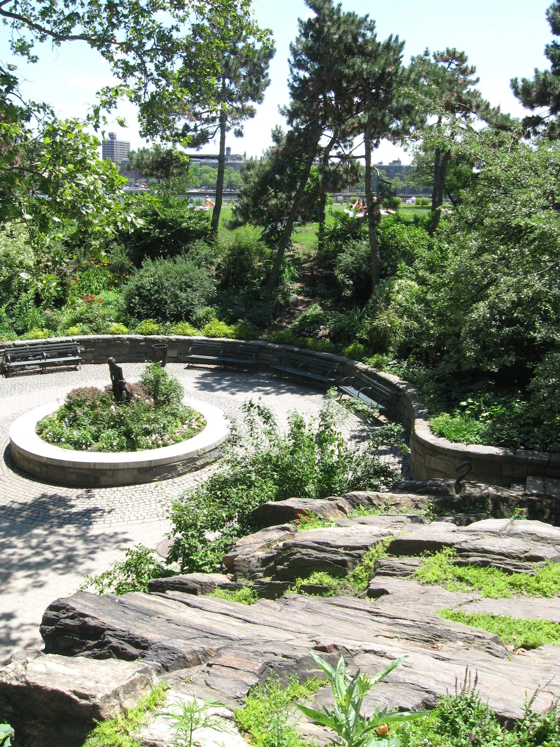 Looking east and down at a small plaza in Carl Schurz Park on a sunny midday in late June 2008